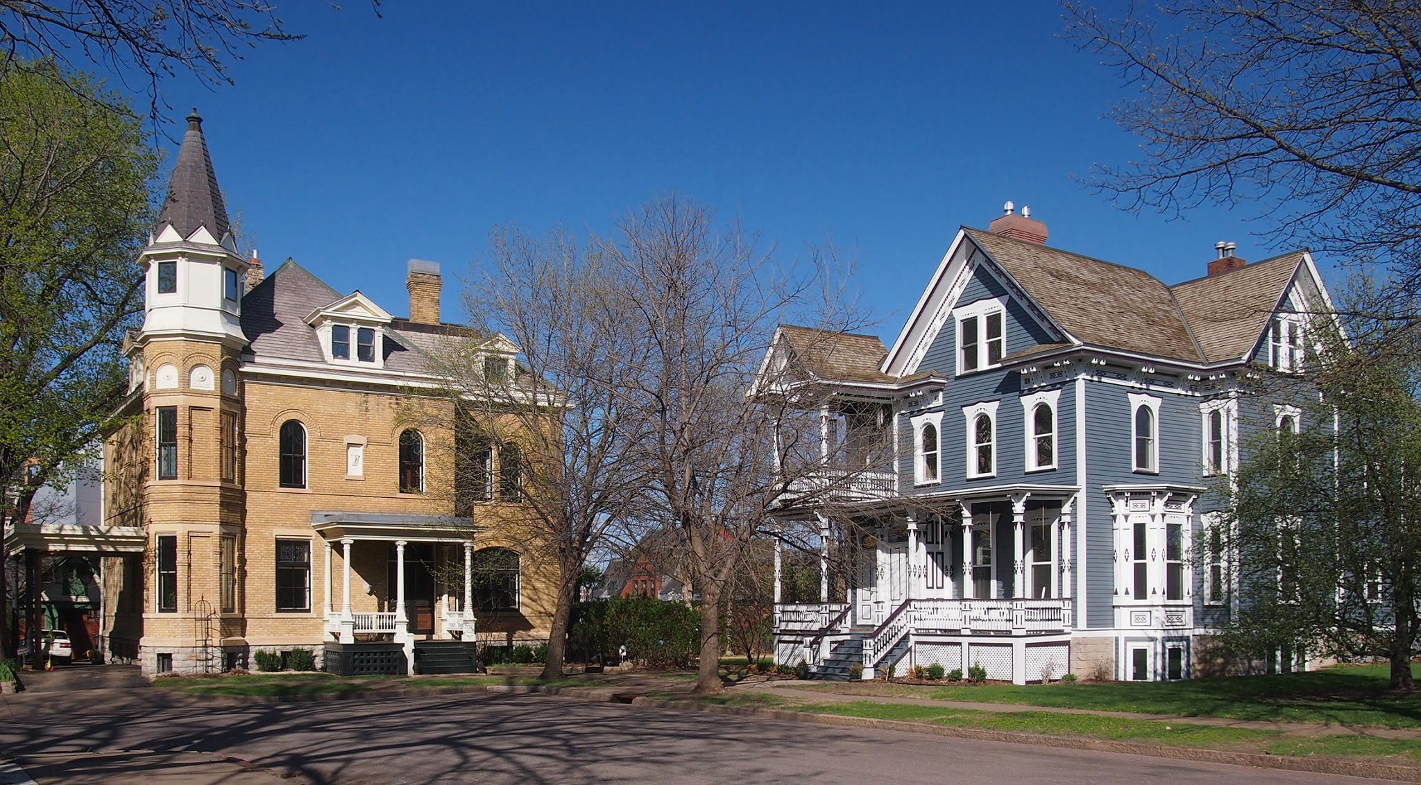 Dr. Justus Ohage House (1889) and John McDonald House (1871), Irvine Park neighborhood, St Paul, Minnesota, USA